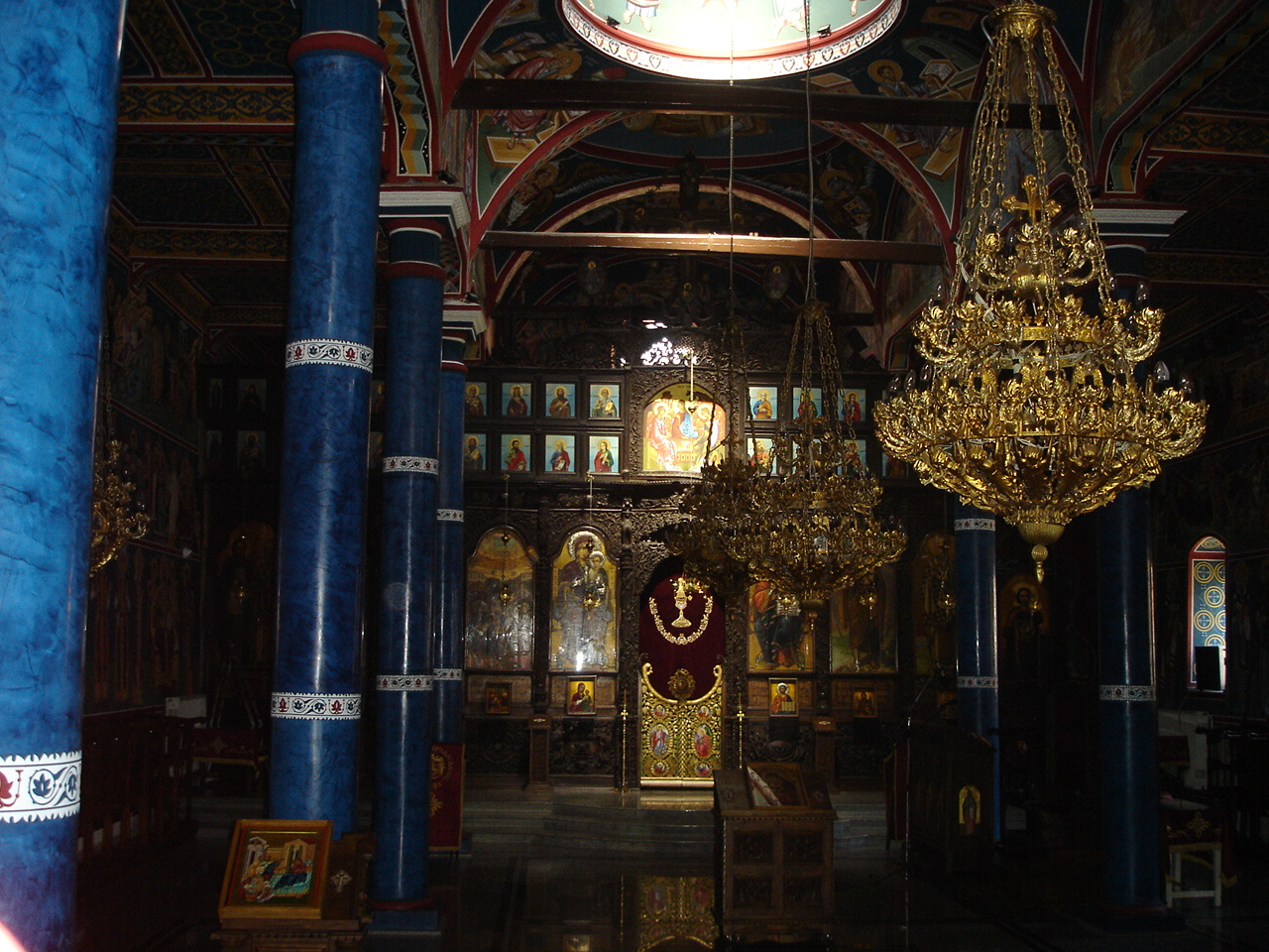 The interior of the church Sv.Bogorodica in Bitola, Macedonia